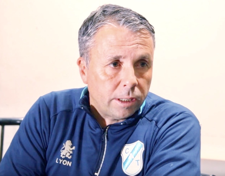 Gustavo Alvarez with Temperley.